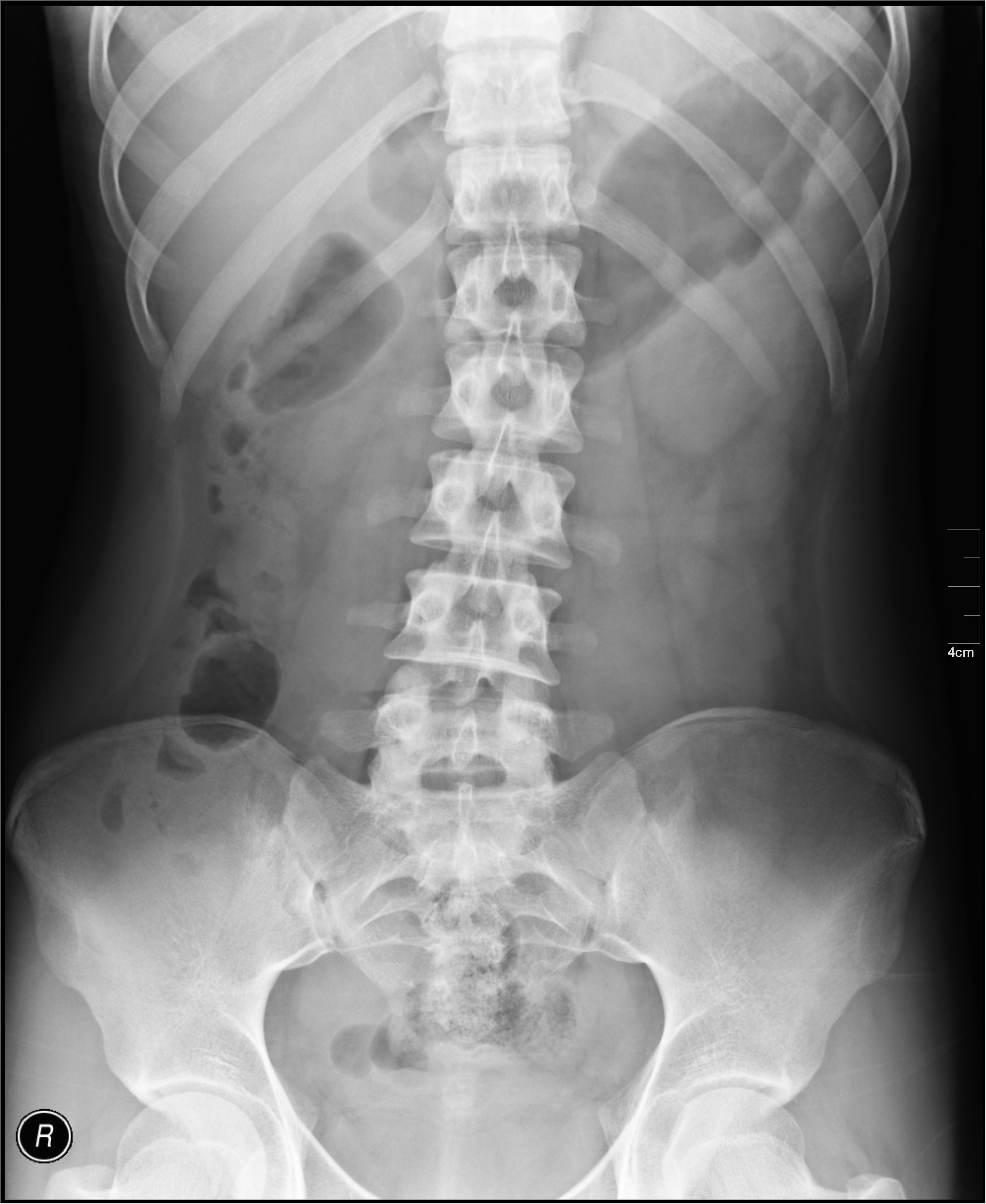 Medical X-rays.